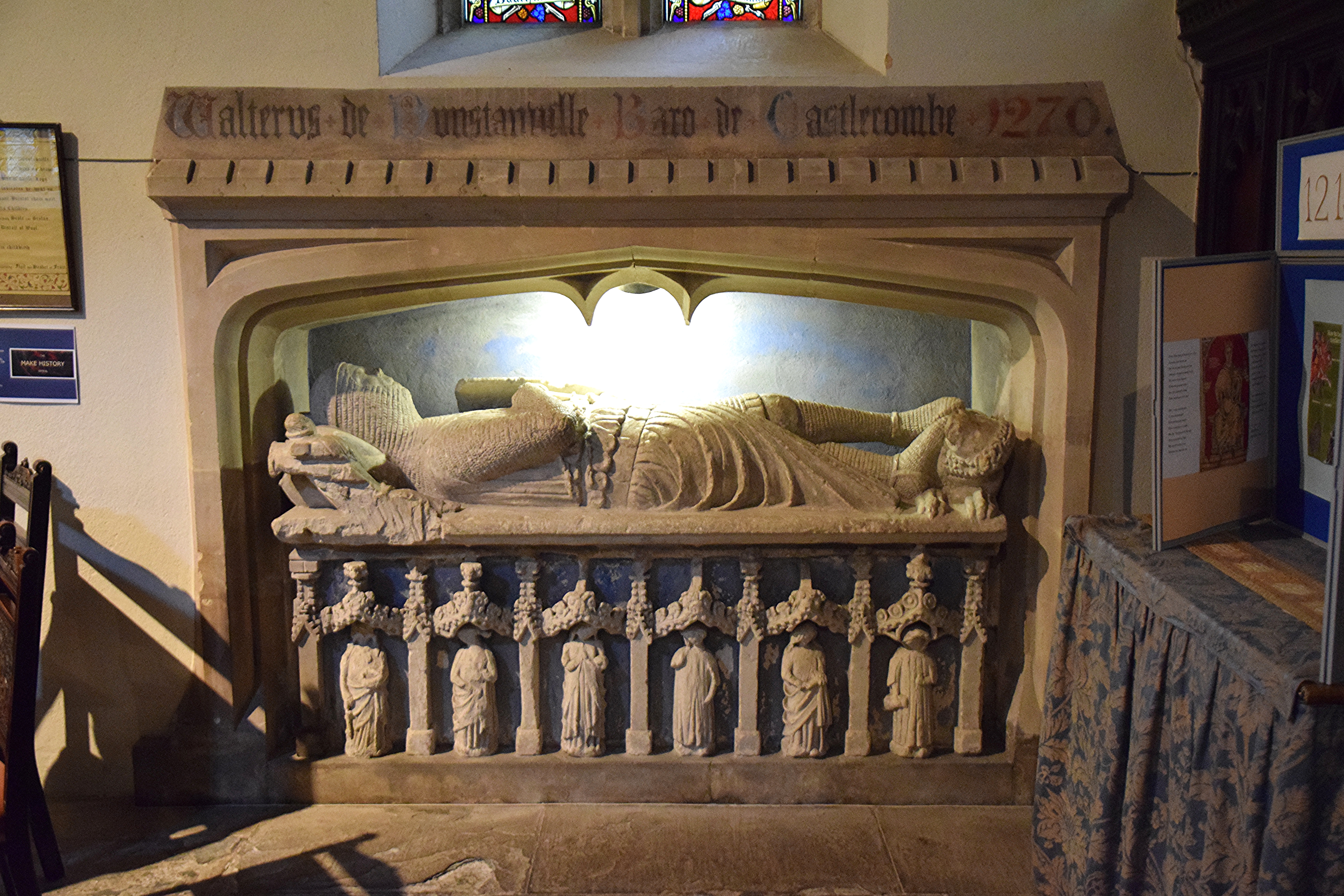 Castle Combe Church (St. Andrew), Wiltshire, 6 November 2016. 13th Century Early English chancel, 14th Century Decorated nave, south and north aisles and chapels, 15th Century Perpendicular tower (1434) and Victorian south porch. Restored 1850-51 when nave and chancel entirely rebuilt (to original plan) and tower repaired. Pictured is the tomb (c.1300) of the Norman Knight Sir Walter de Dunstaville (great, great grandson of Henry I), Baron of Castle Combe who fought in two Crusades and died in battle.